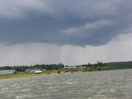 Stanley Mission, Saskatchewan, taken by Fremte, Aug 2007